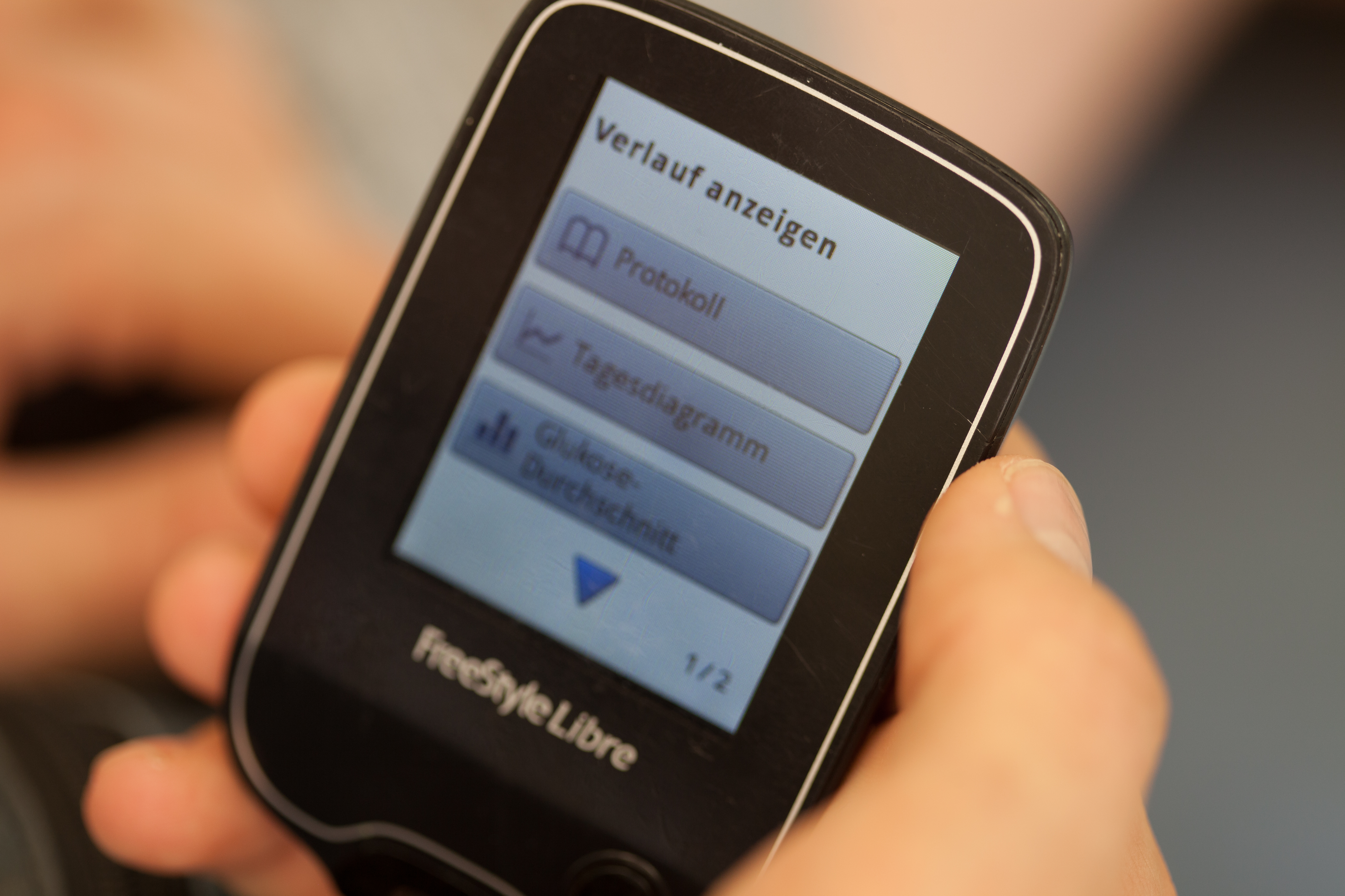 Blood glucose meter FreeStyle Libre from Abbott. The white sensor is fixed to the upper arm and scanned with the reader.